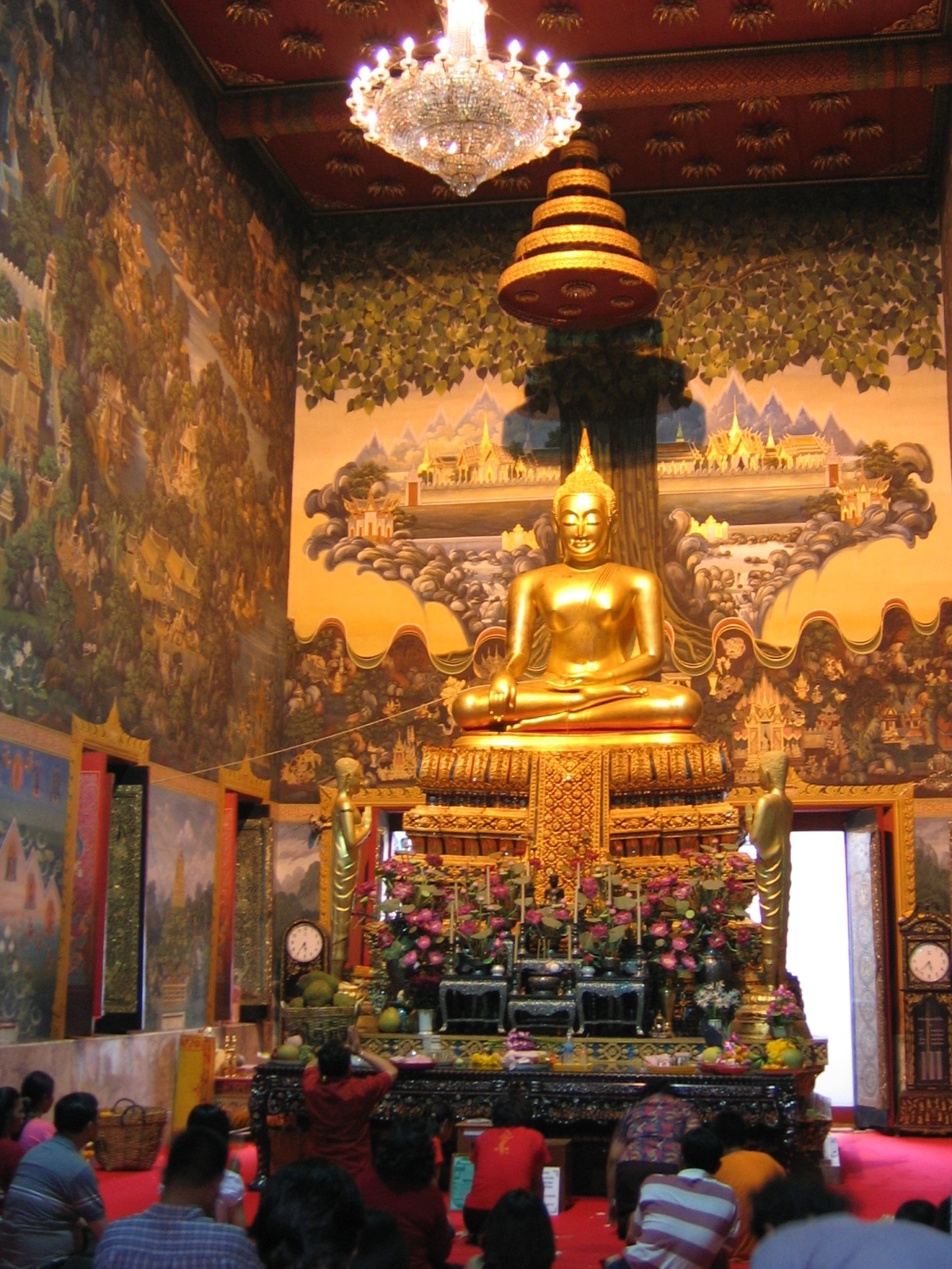 The Luang Pho Wat Rai Khing หลวงพ่อวัดไร่ขิง Buddha image at Wat Rai Khing, Amphoe Samphran, Nakhon Pathom, Thailand.